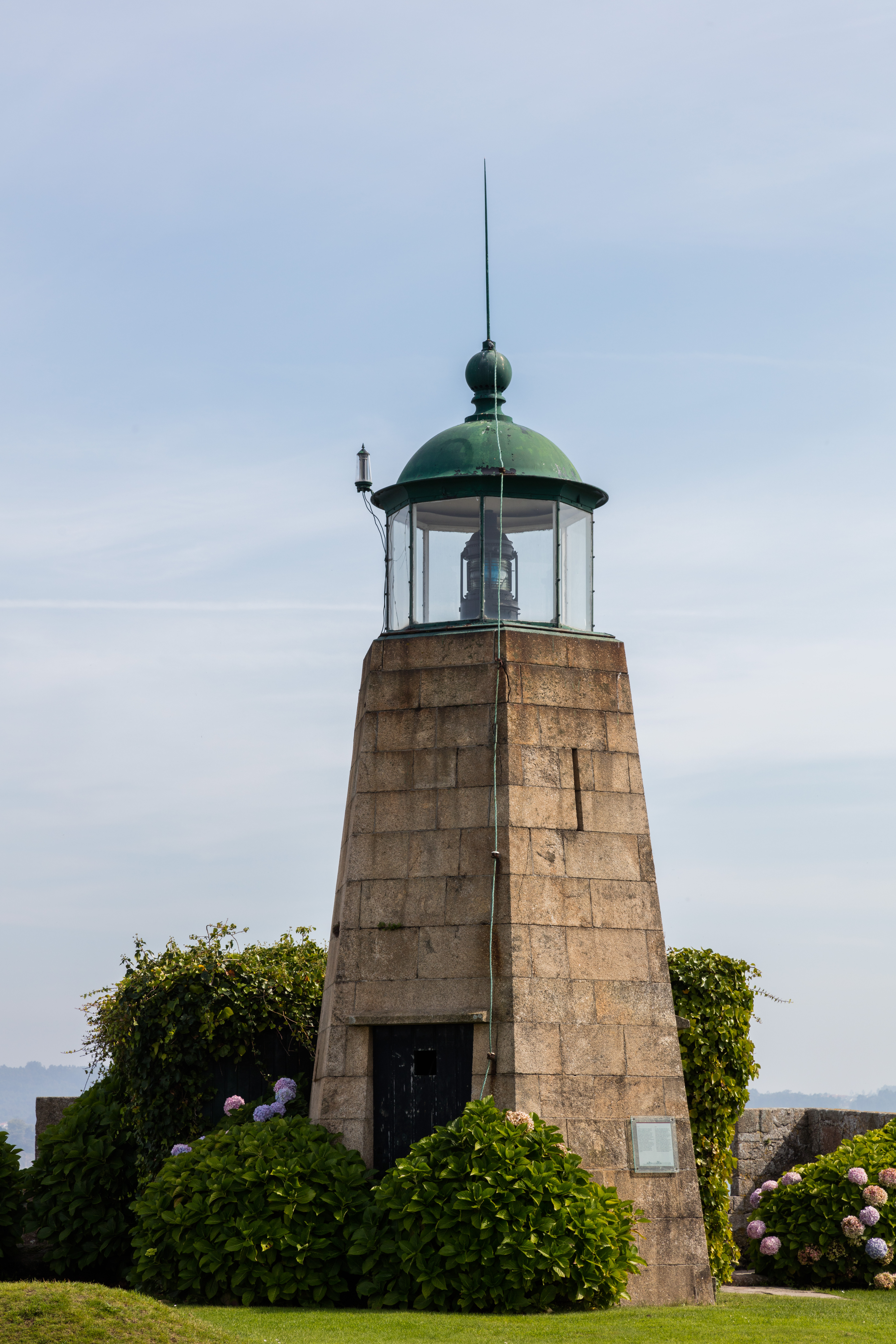 San Antón Castle, La Coruña, Spain